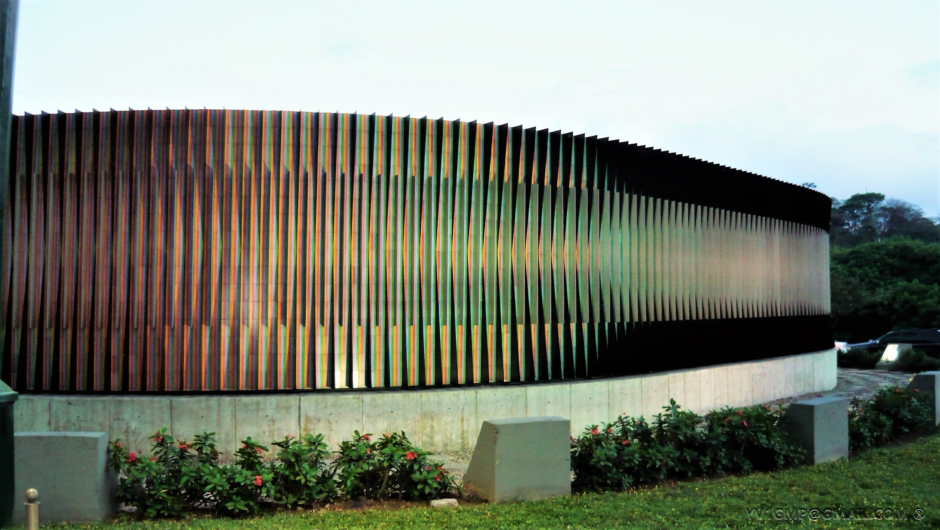 The Double Concave-Convex Physicromy work located in the Plaza Venezuela in Caracas in honor of the illustrious Don Andres Bello.